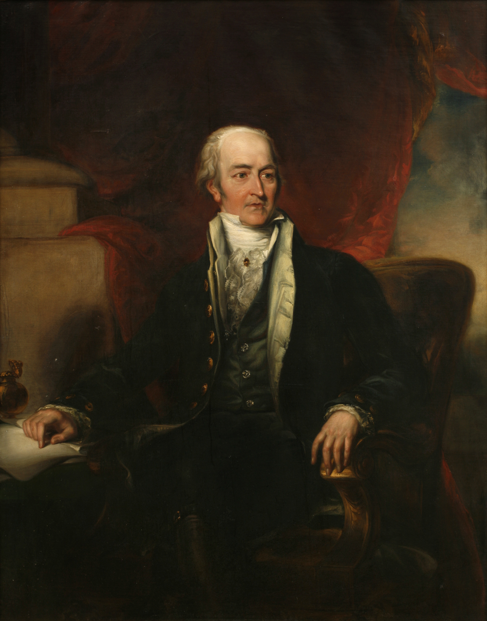 Portrait of Francis Basset, 1st Baron de Dunstanville and Basset (1757–1835), his patron, by John Bryant Lane